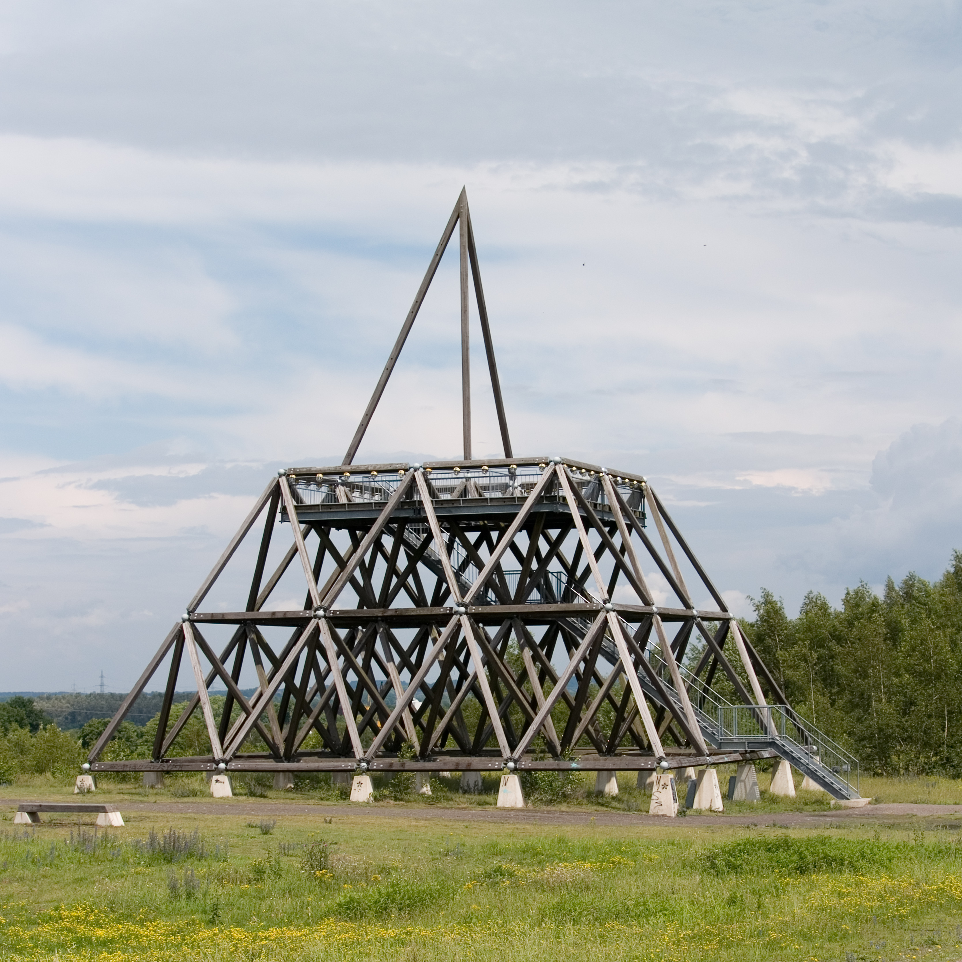 Spurwerkturm - monument constructed with wooden parts of a former pit